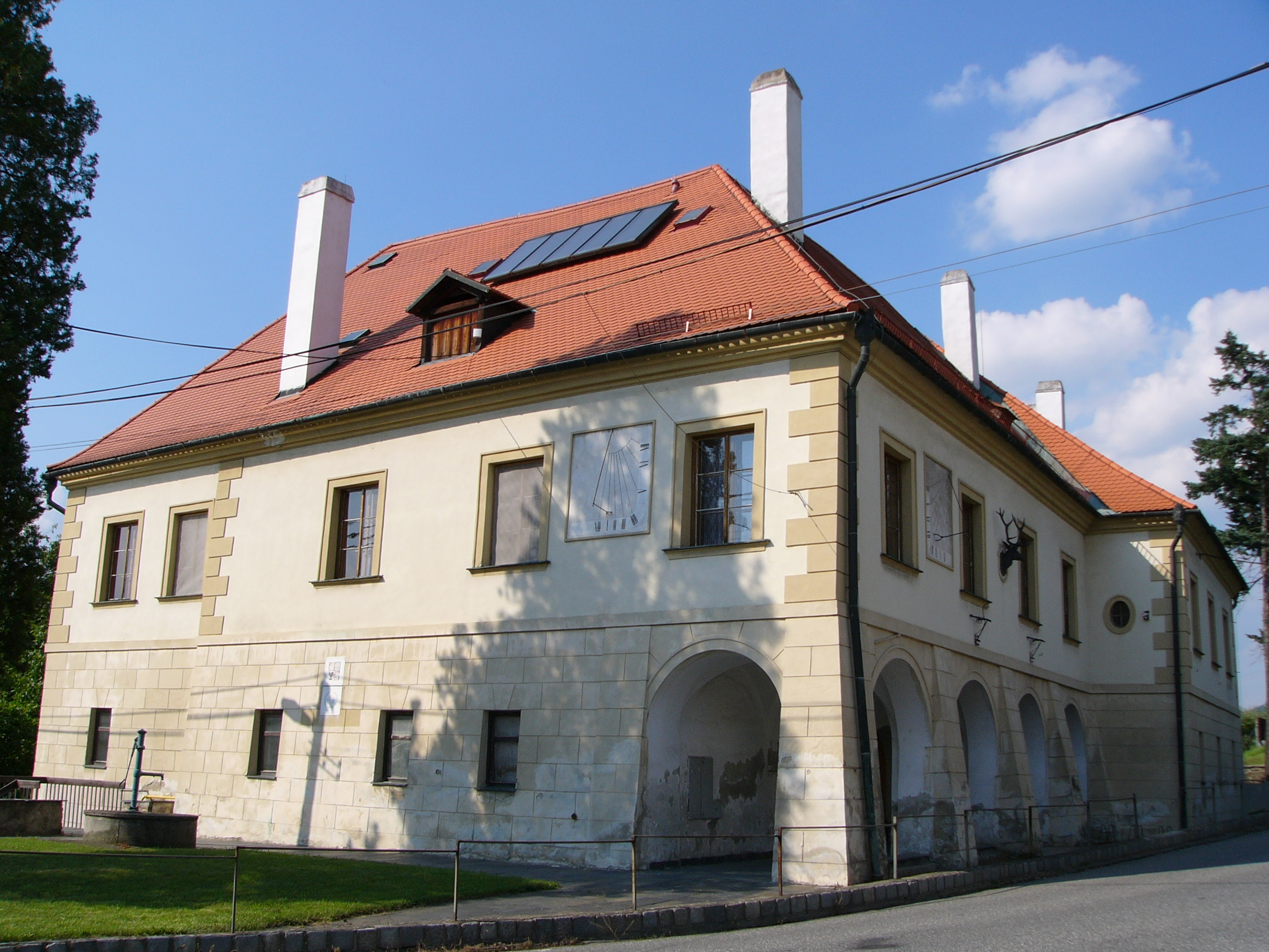 Château in Dolany (Czech Republic).